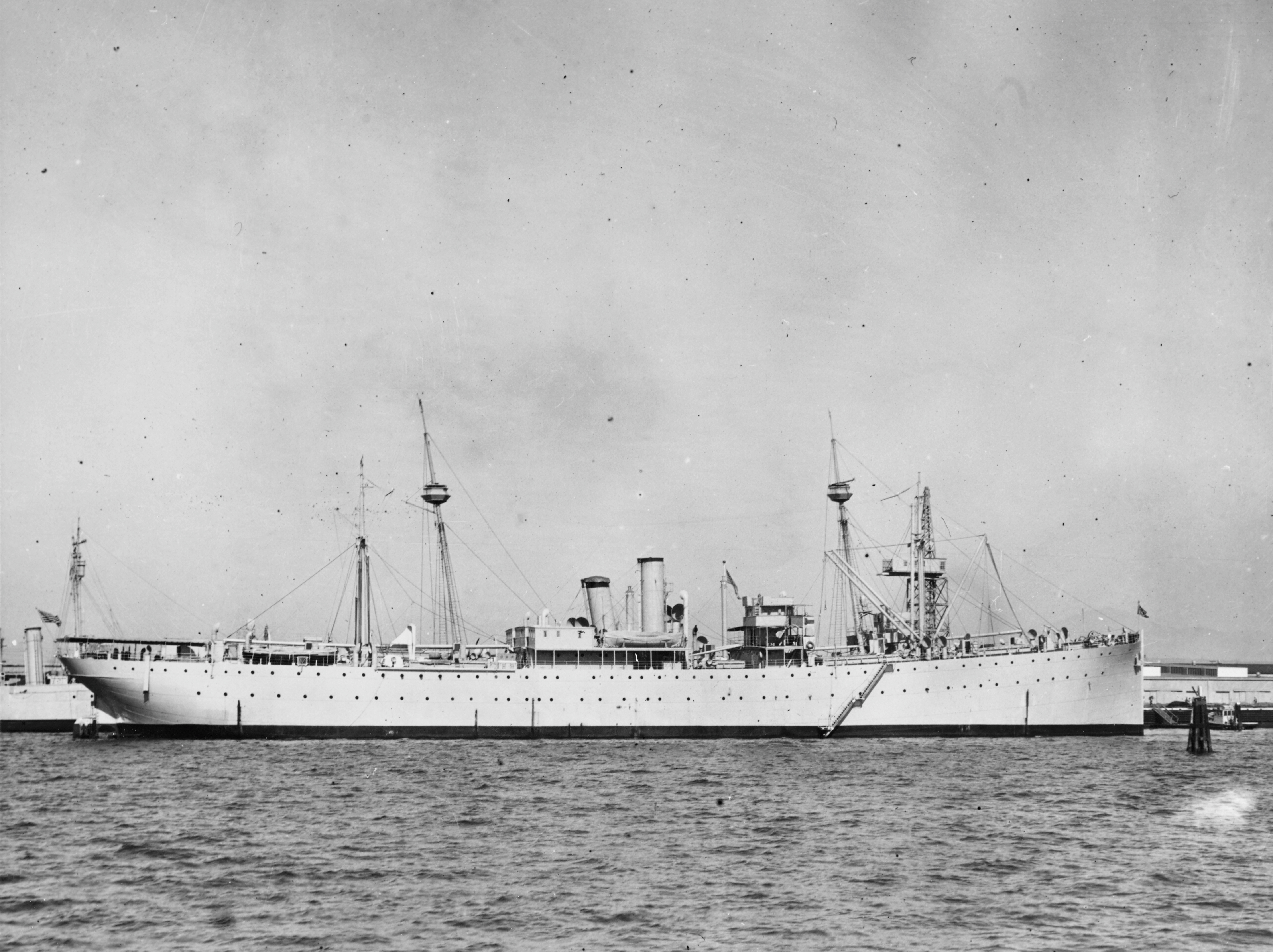 The U.S. Navy destroyer tender USS Rigel (AD-13) in port, circa in the 1930s.